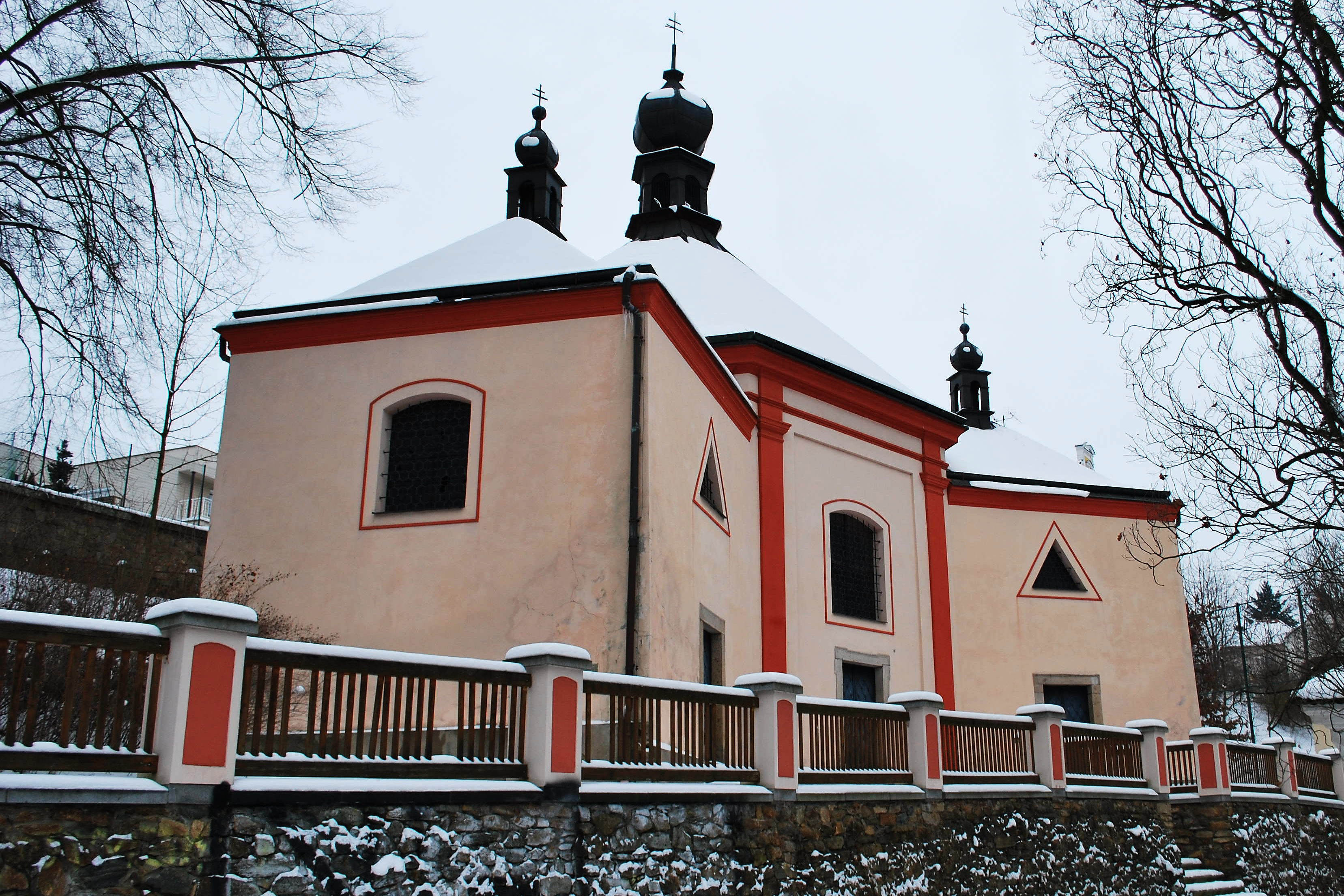 Church of the Holy Trinity (Havlickuv Brod), The Trinity, Havlickuv Brod